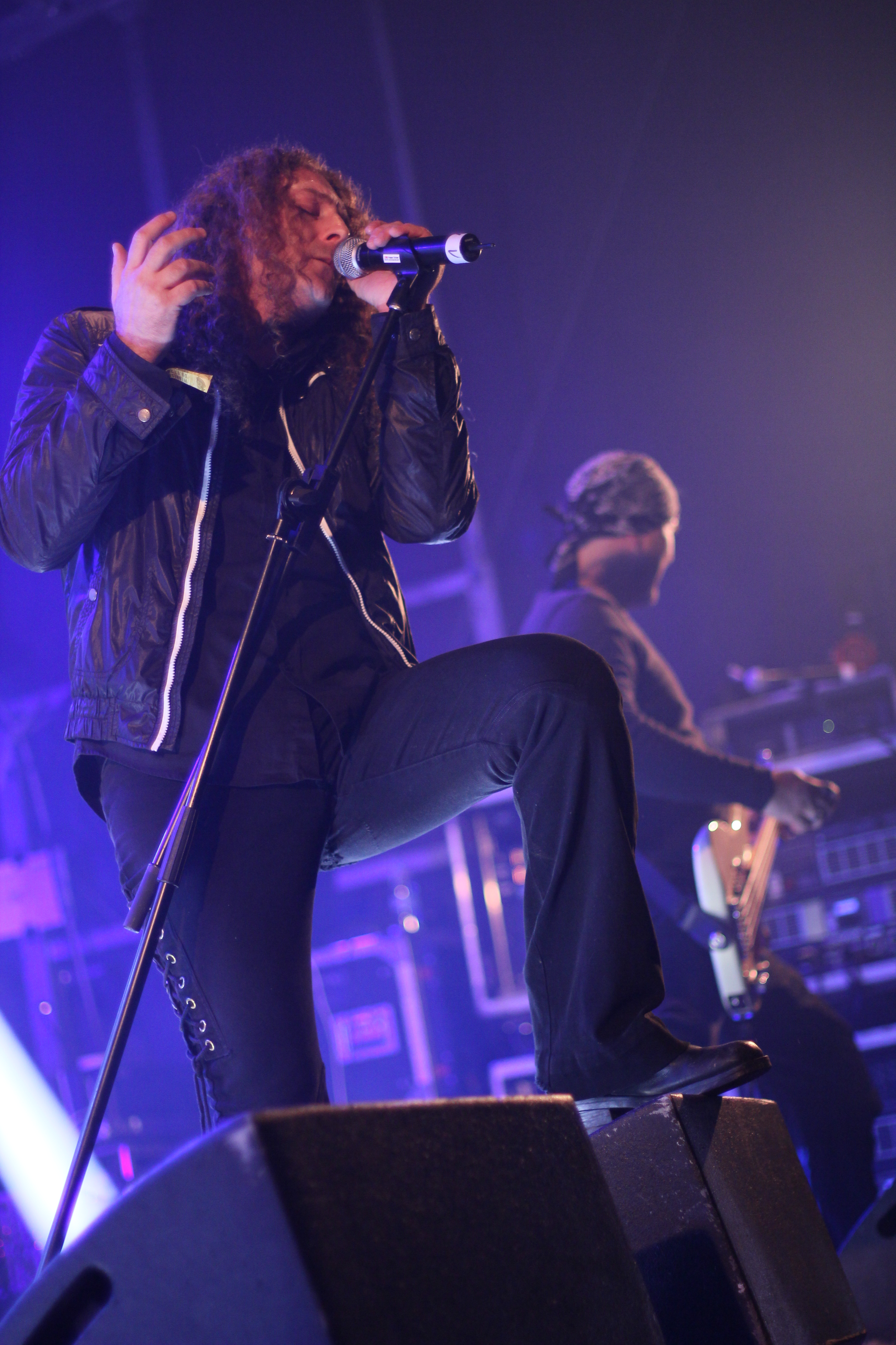 The Italian power metal band Rhapsody of Fire at the Rockharz Open Air 2014 in Ballenstedt/Germany